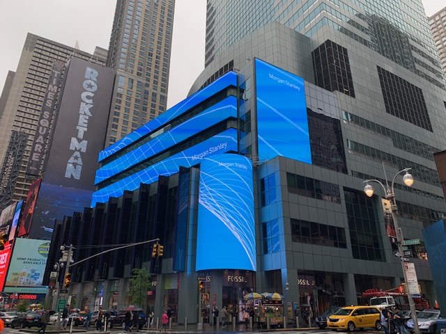 Morgan Stanley's global headquarters in Times Square, may 2019.